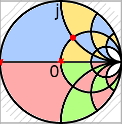 Smith Diagram